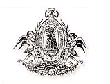 Emblem of the Madres de Desamparados y San José de la Montaña, religious congregation, from a print ca. 1890